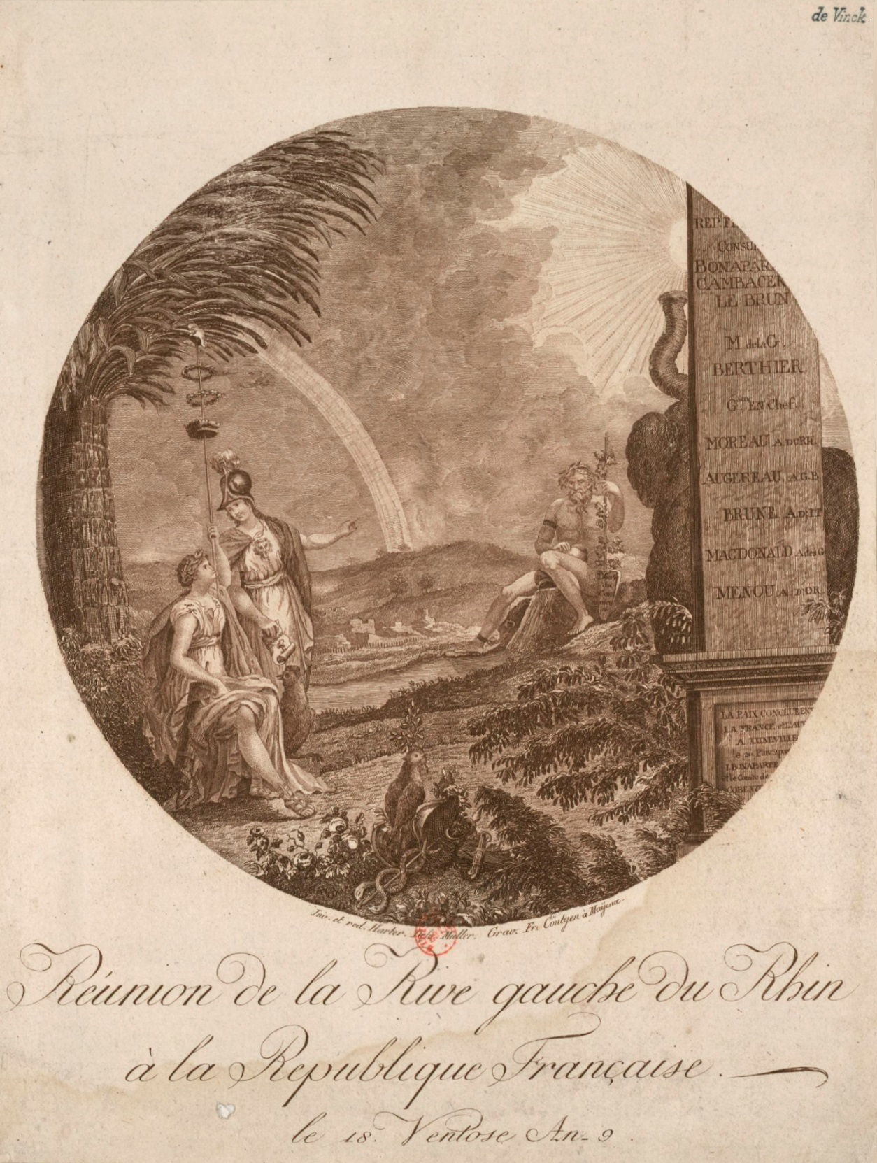 Allegorical engraving celebrating the annexation of the left bank of the Rhine to the French Republic following the signing of the Treaty of Lunéville in February 1801. The de facto annexation had already taken place shortly after the Treaty of Campo Formio of 1797, but the Treaty of Lunéville made it official in international law. The annexation was euphemistically called a 'reunion' by the French. On the right-hand side of the engraving are the names of the three consuls, including First Consul Bonaparte, followed by the names of the War Minister and various army generals. One of the artists who designed the engraving was the Jacobin Nikolaus Müller from Mainz.